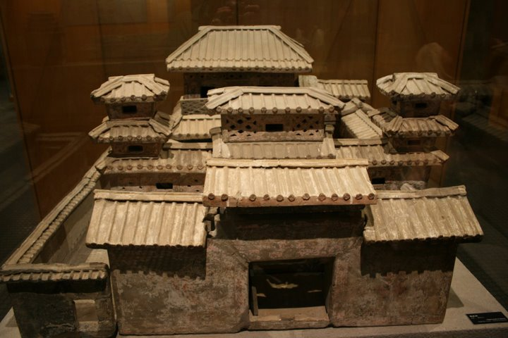 A pottery model of a palace from the Chinese Han Dynasty.